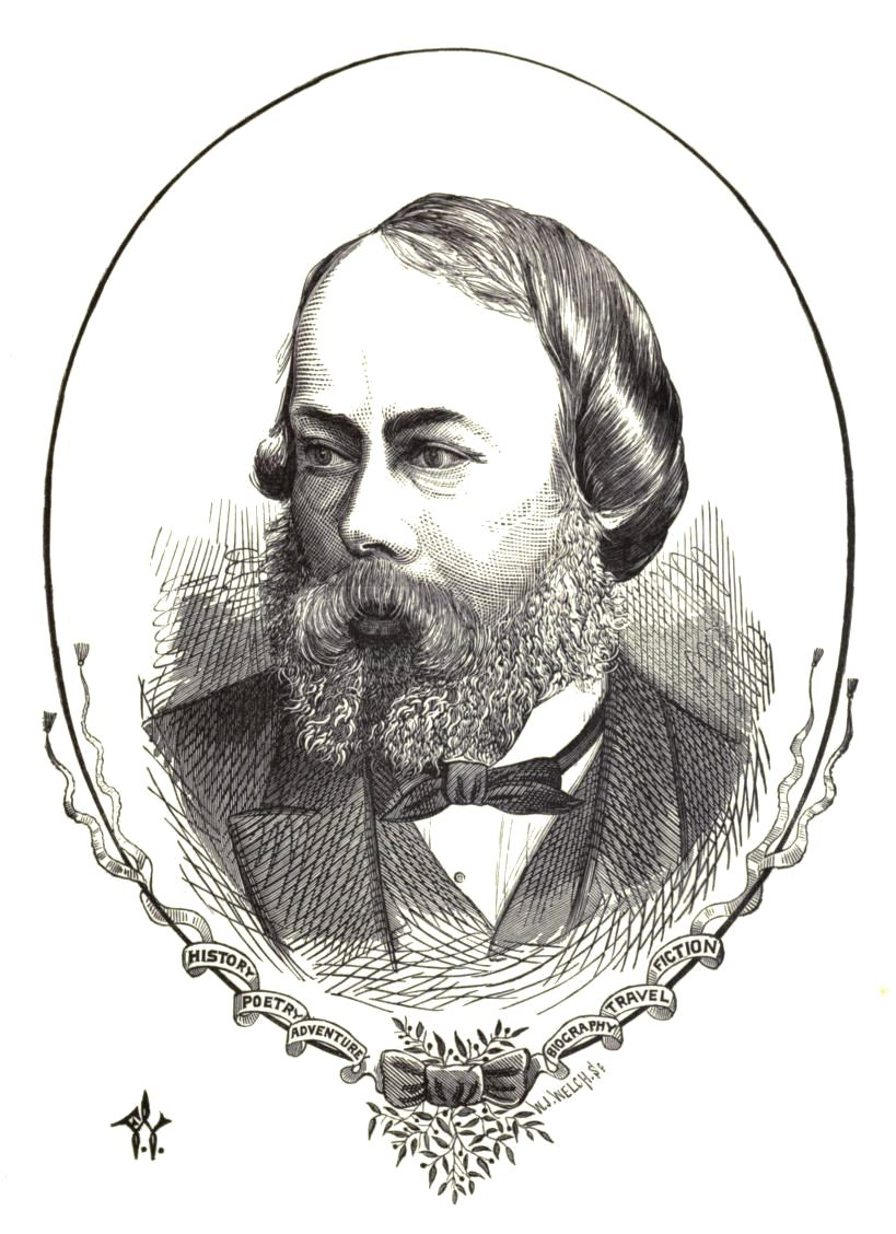 Charles Edward Mudie. Books. from Cartoon portraits and biographical sketches of men of the day